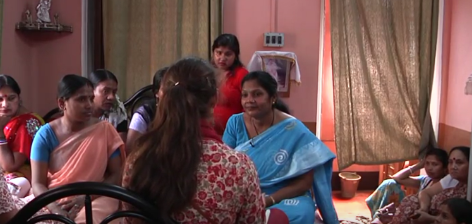 Bharati Day, secretary of the Durbar Mahila Samanwaya Committee, during an interview.